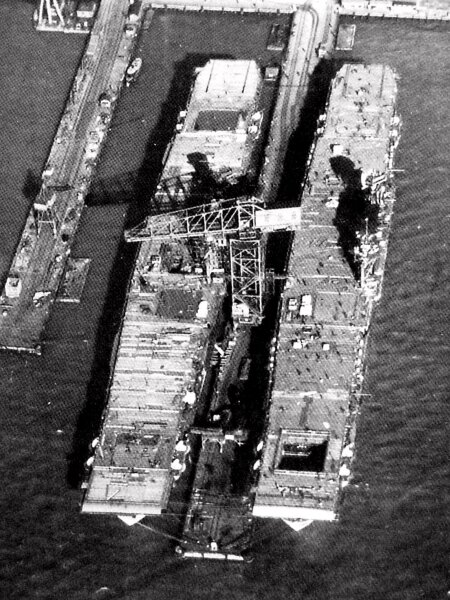 The U.S. Navy aircraft carriers USS Enterprise (CV-6), left, and USS Yorktown (CV-5) under construction at Newport News, Virginia (USA), 8 February 1937.